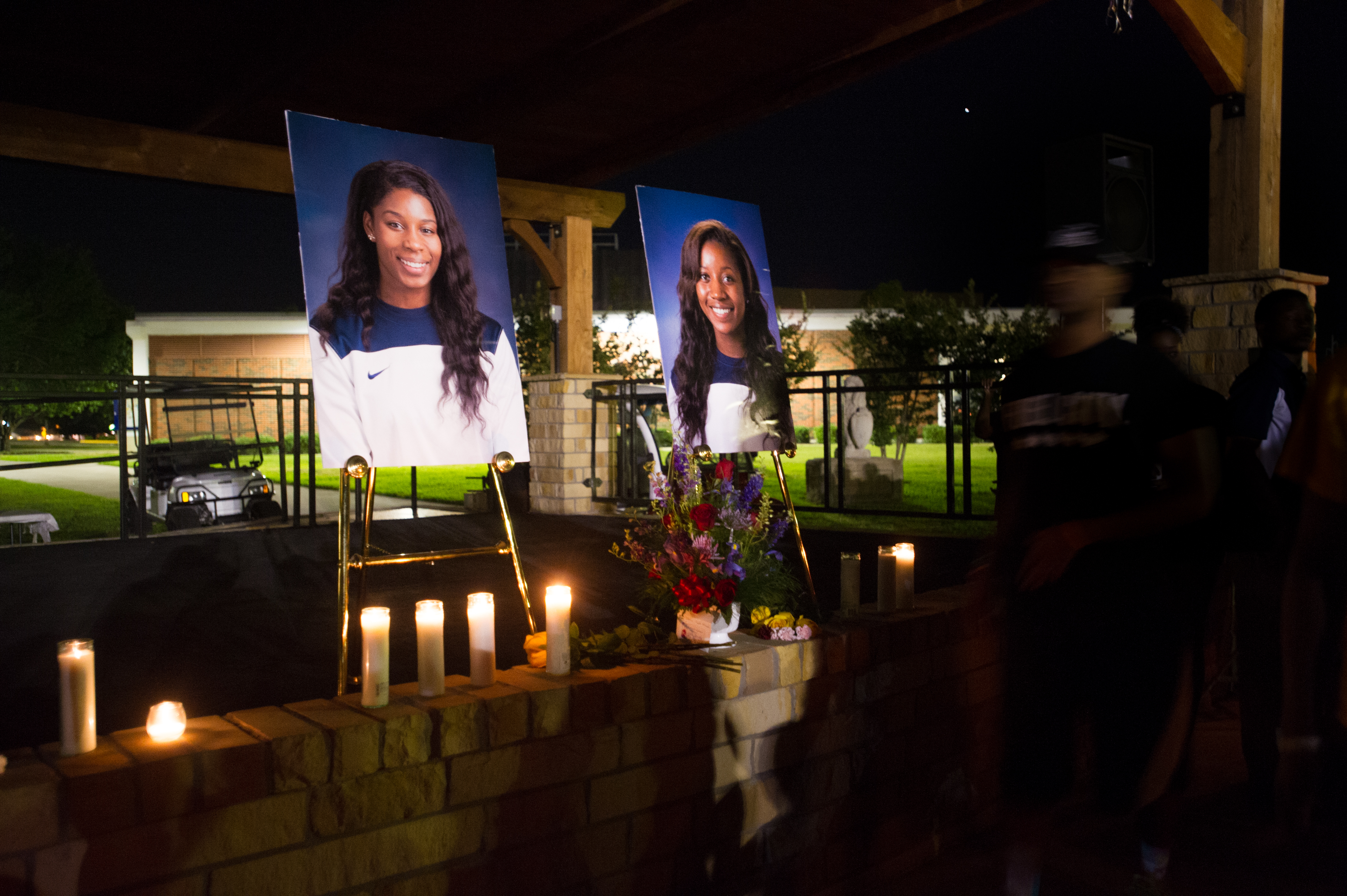 14294-Basketball Candlelight Vigil-4513 2014 Texas A&M–Commerce Lions women's basketball candlelight vigil